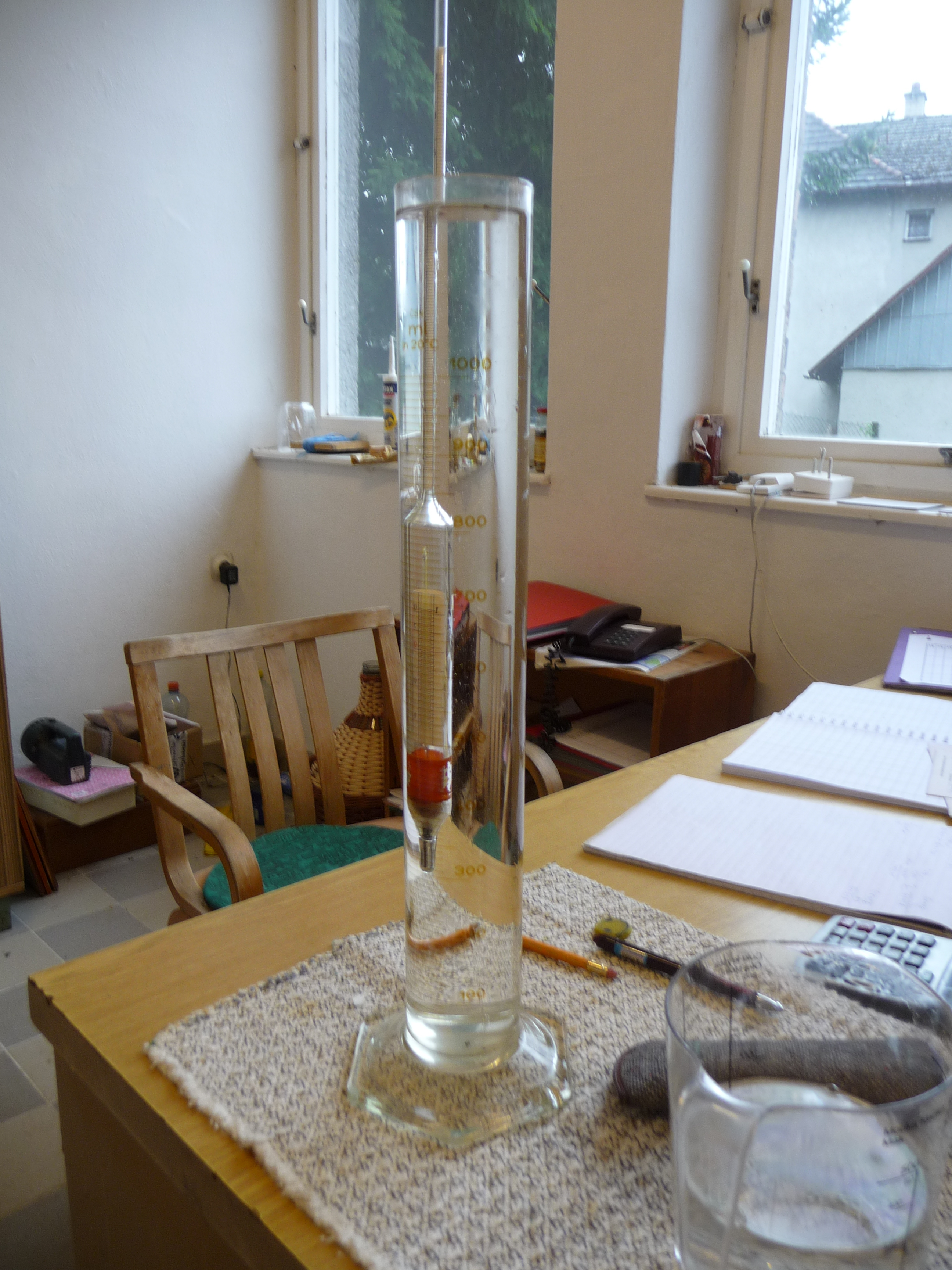 Alcoholometer, Hvozdná distillery